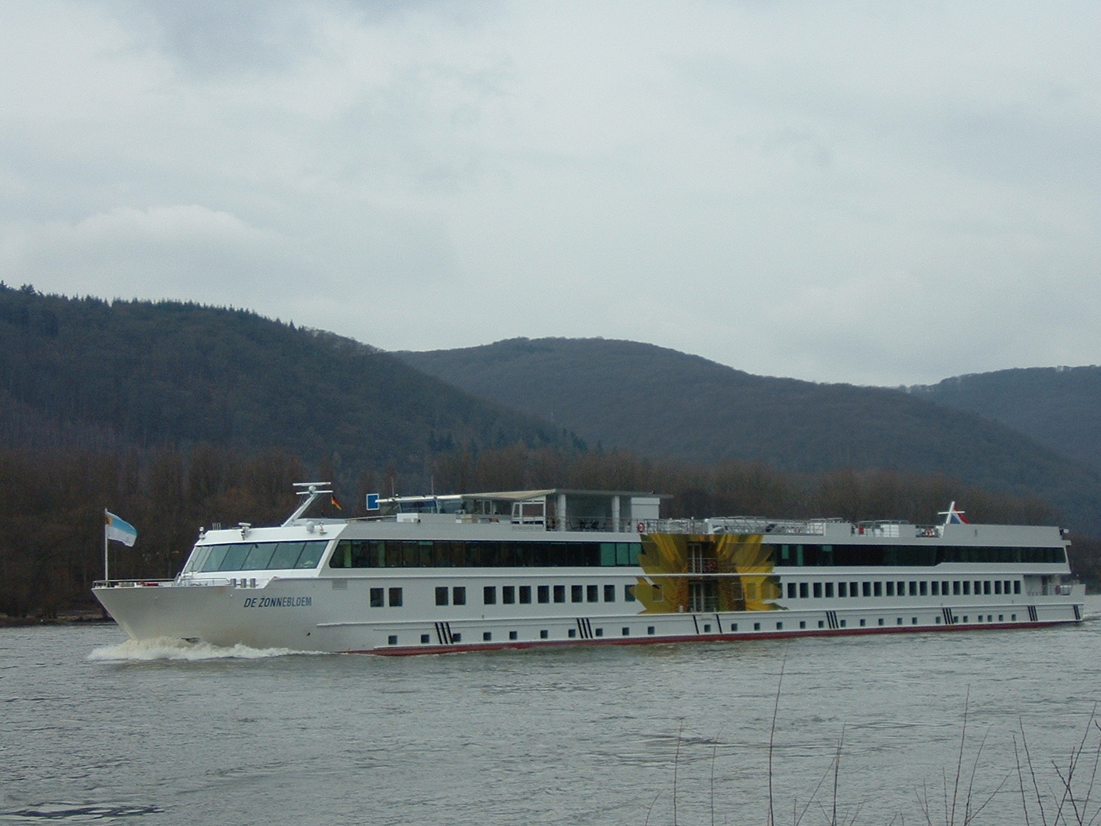 Passenger ship De Zonnebloem.